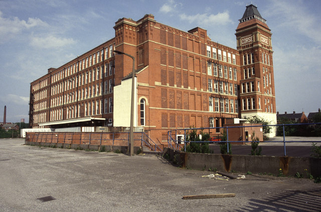 Gorse Mill An image from 1992. The tower lacks the modern crown of antennae. The engine house is still gone and its position is marked by the cream panel on the right hand end. The blind arcading marks the position of the rope race. Urban explorers (some) seem to have problems with this structure and its original function.